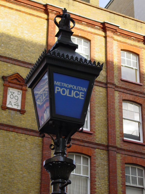 A photo of a traditional "blue lamp" as located outside most English police stations. This one is outside the Charing Cross Police Station of the Metropolitan Police in London. The building in the background is Agar House, 12 Agar Street, Covent Garden, London WC2N 4HN.